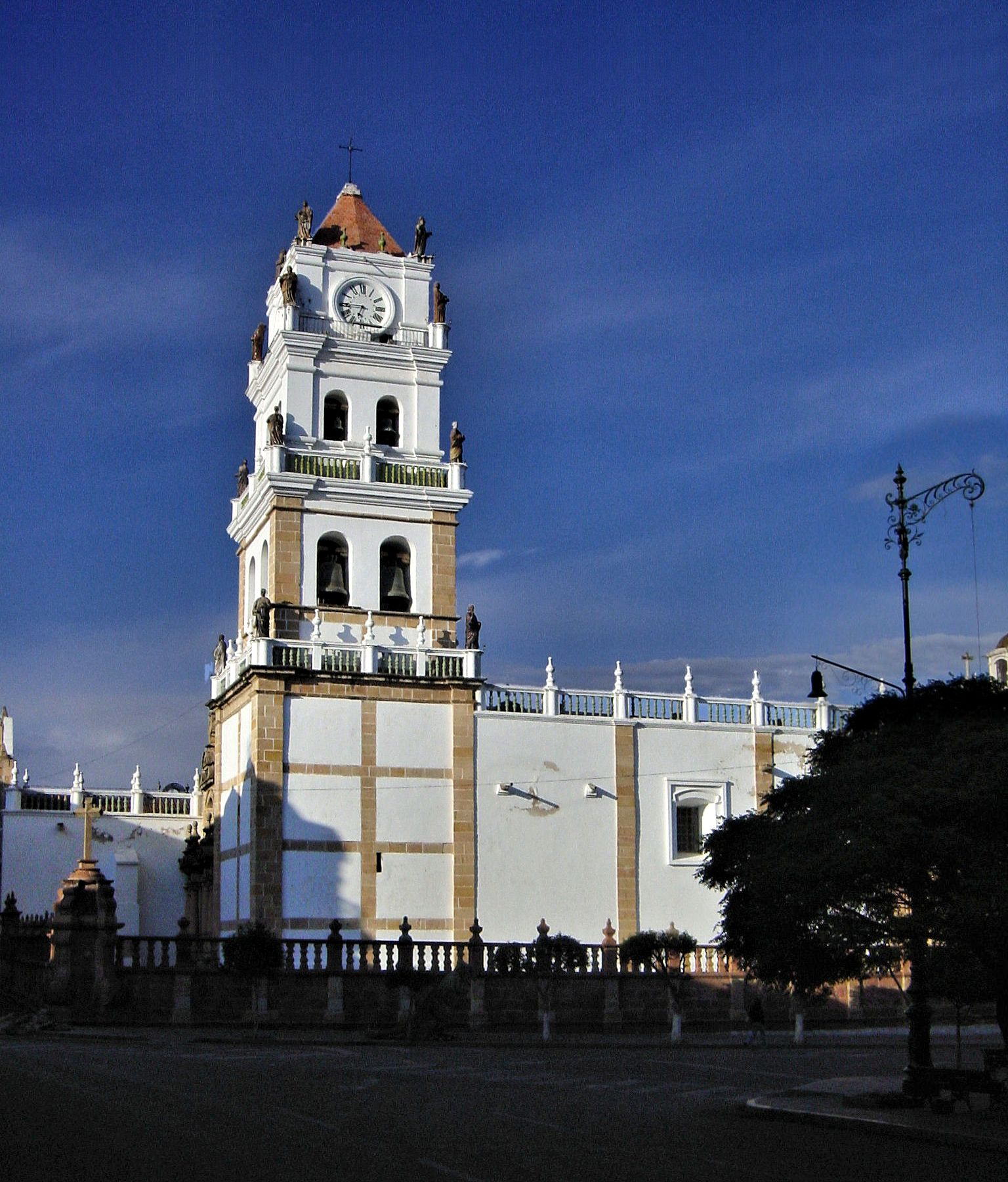 The cathedral is in the Plaza de Armas in Sucre and was built between 1551 and 1712 and has been extensively modified since then so there is a mixture of architectural styles. The interior décor dates from 1826 and is very ornate.